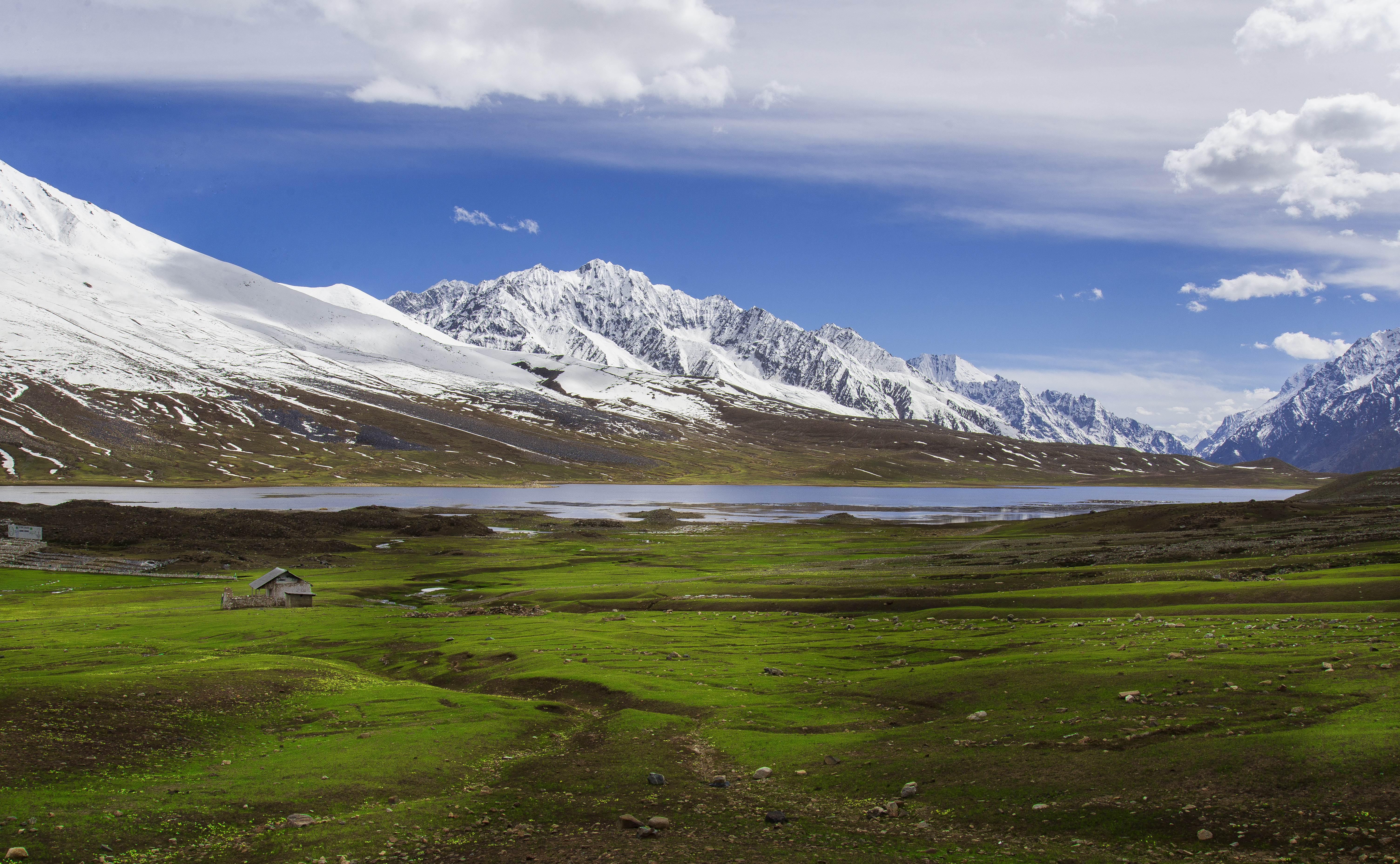 This image was taken at Shandur Top in May 2016.